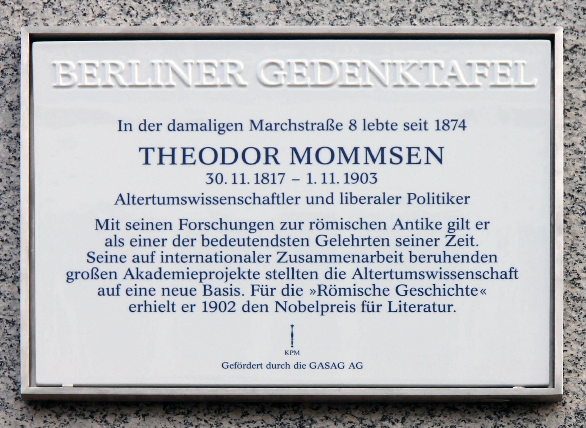 Berlin memorial plaque, Theodor Mommsen, Straße des 17. Juni 152, Berlin-Charlottenburg, Germany